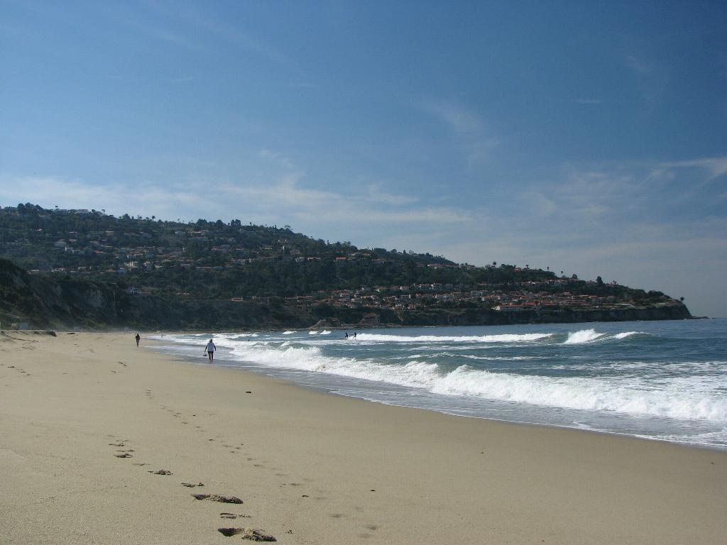 view to Palos Verdes from Torrance Beach